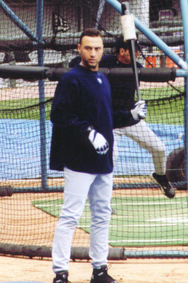 Derek Jeter of the New York Yankees during pre-game batting practice in 2004